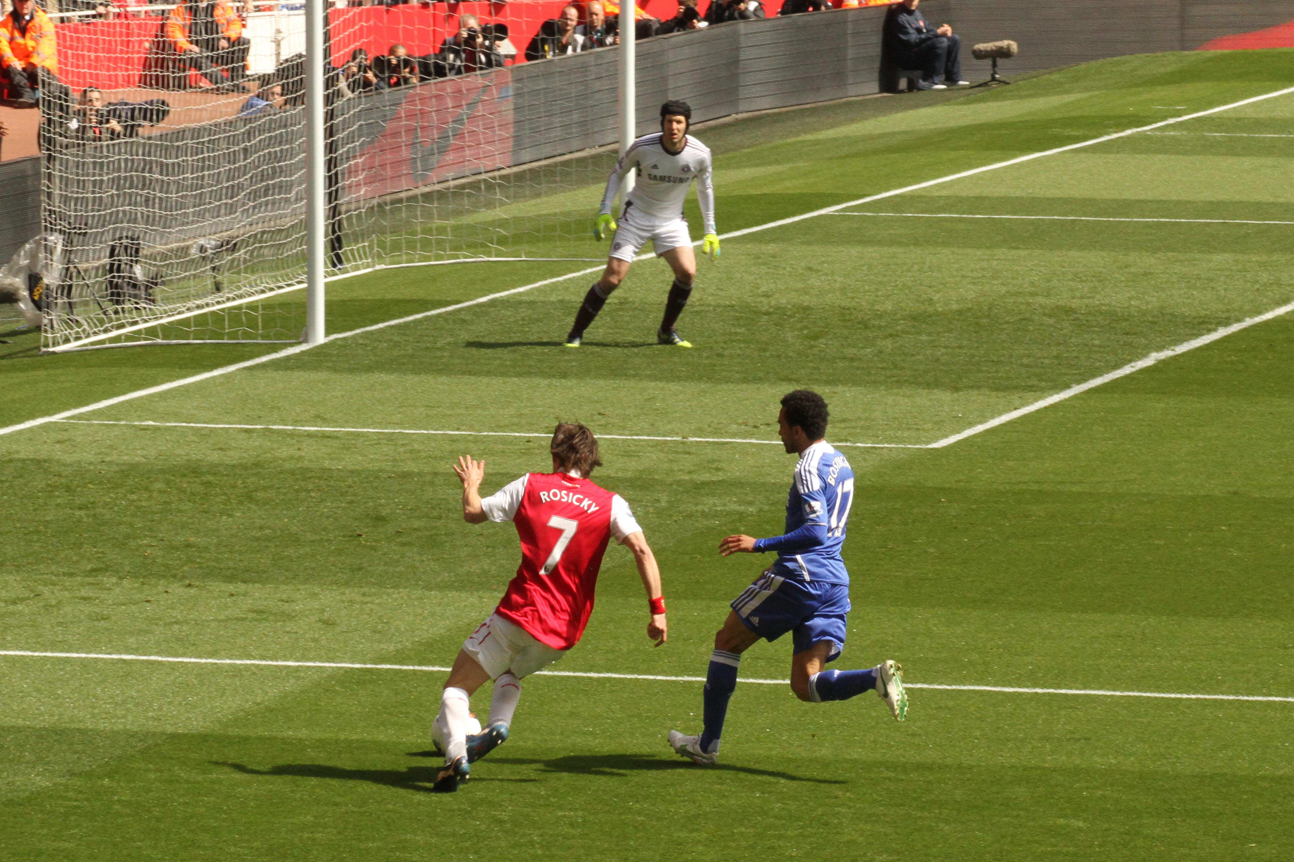 Tomáš Rosický attacks the Chelsea goal